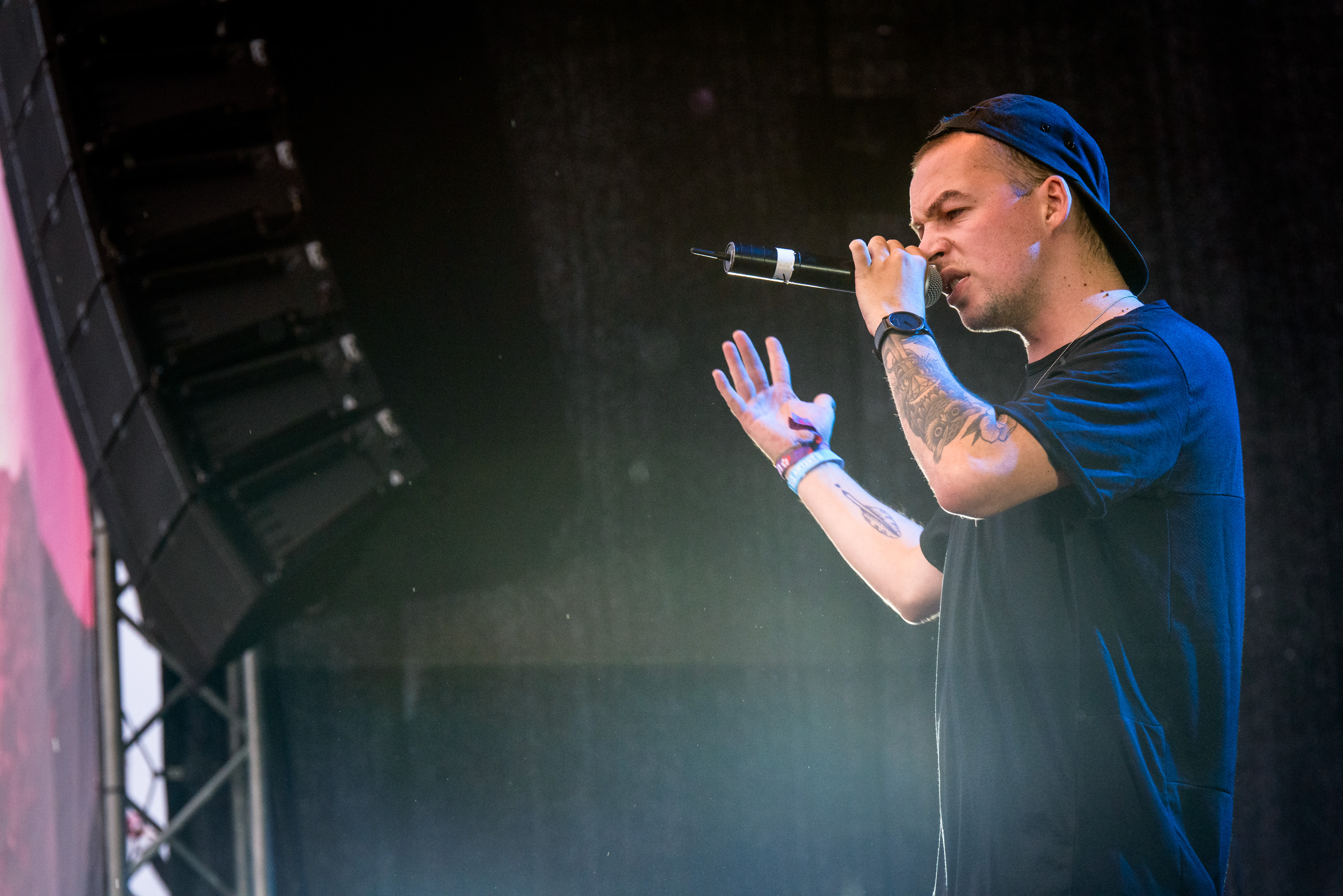 Errdeka Live @ Utopia Island 2015